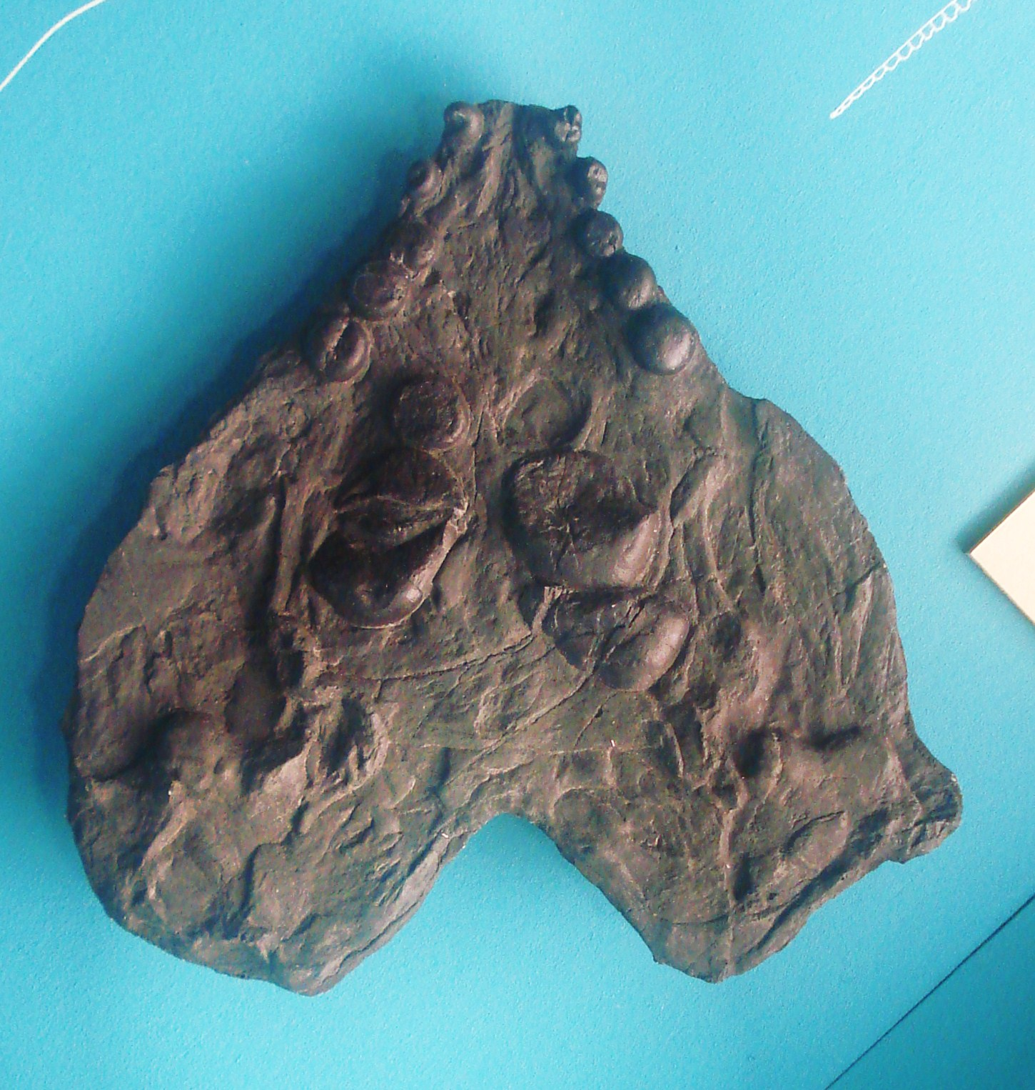 fossil skull of Cyamodus hildegardis, taken in Museo di Storia Naturale di Lugano